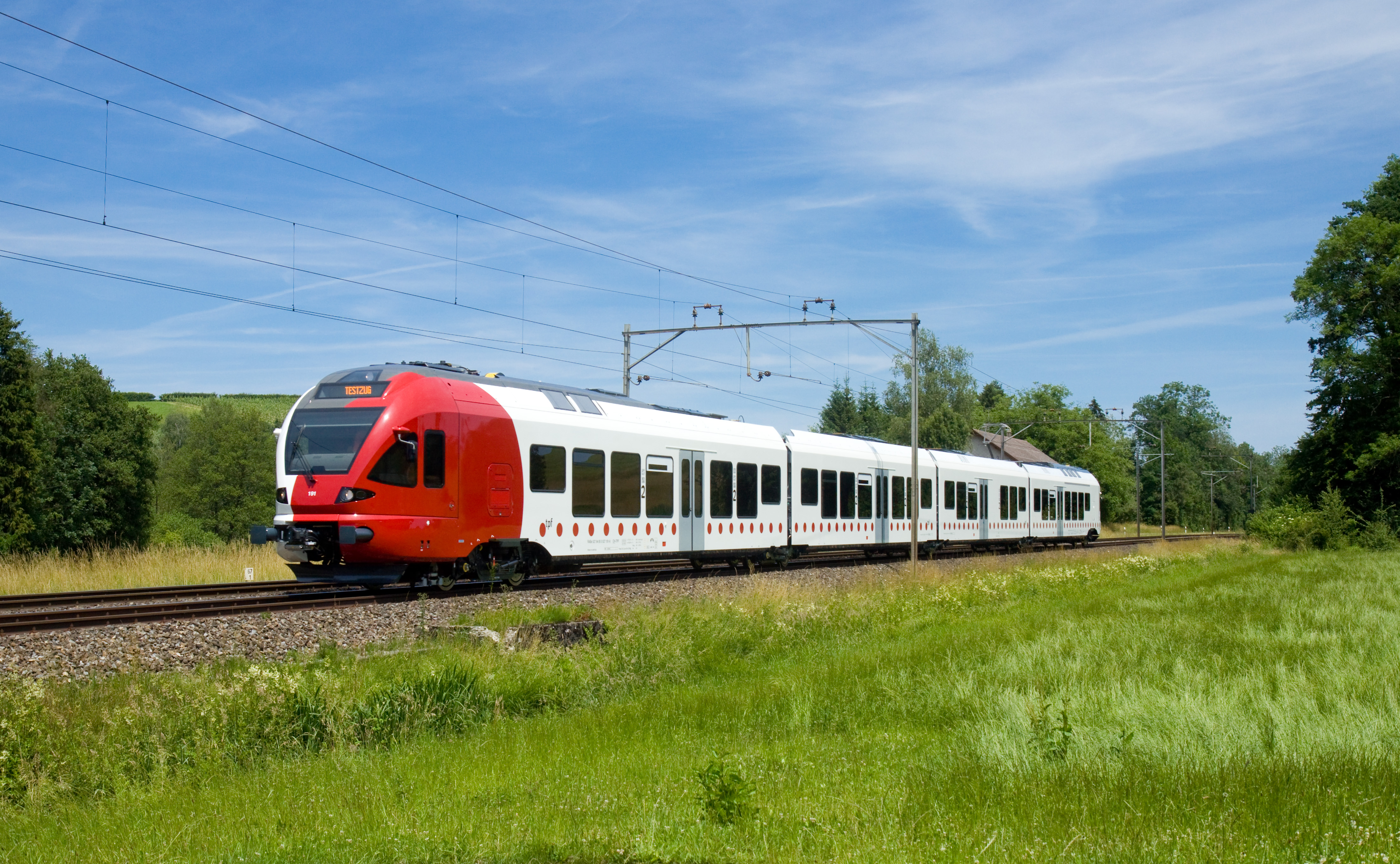 Brand new RABe 527 "FLIRT" unit of the Transports publics fribourgeois on a trial run, near Sulgen, Switzerland.